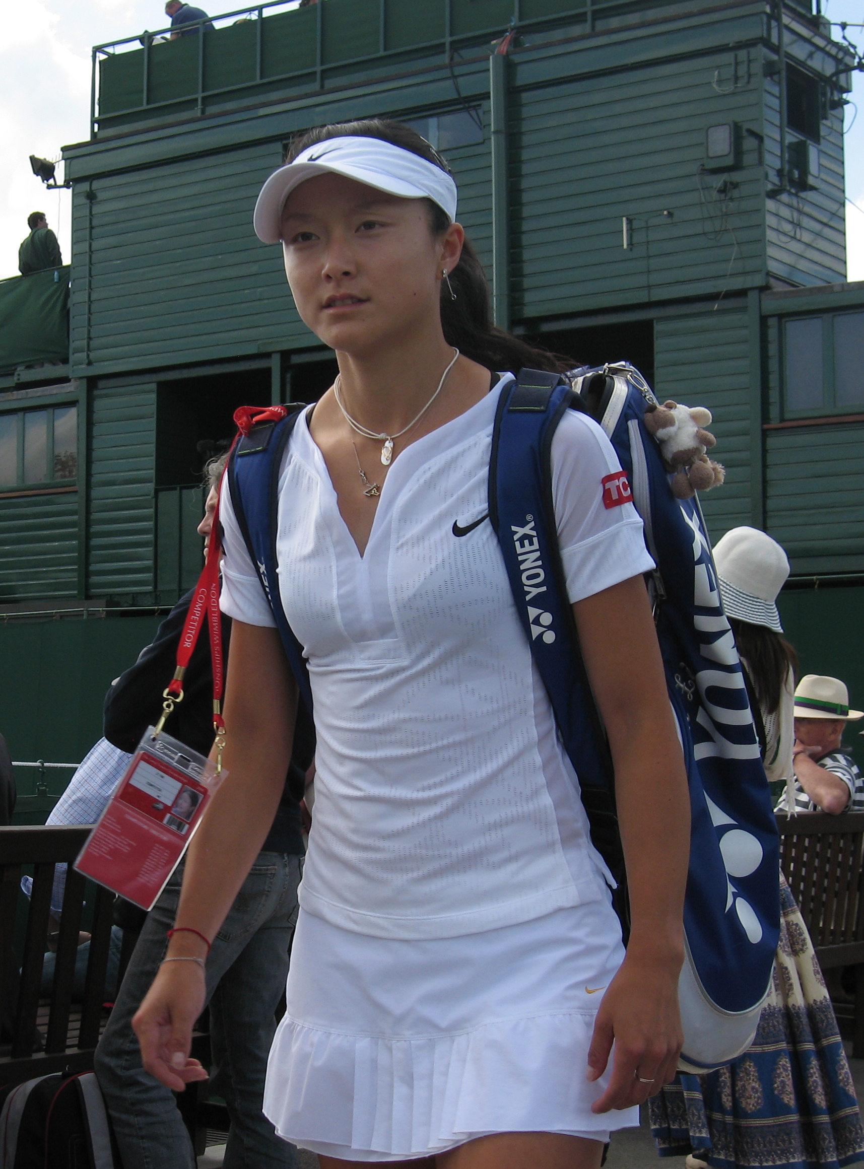 Yan Zi walking into her 2008 Wimbledon 1st round doubles match.